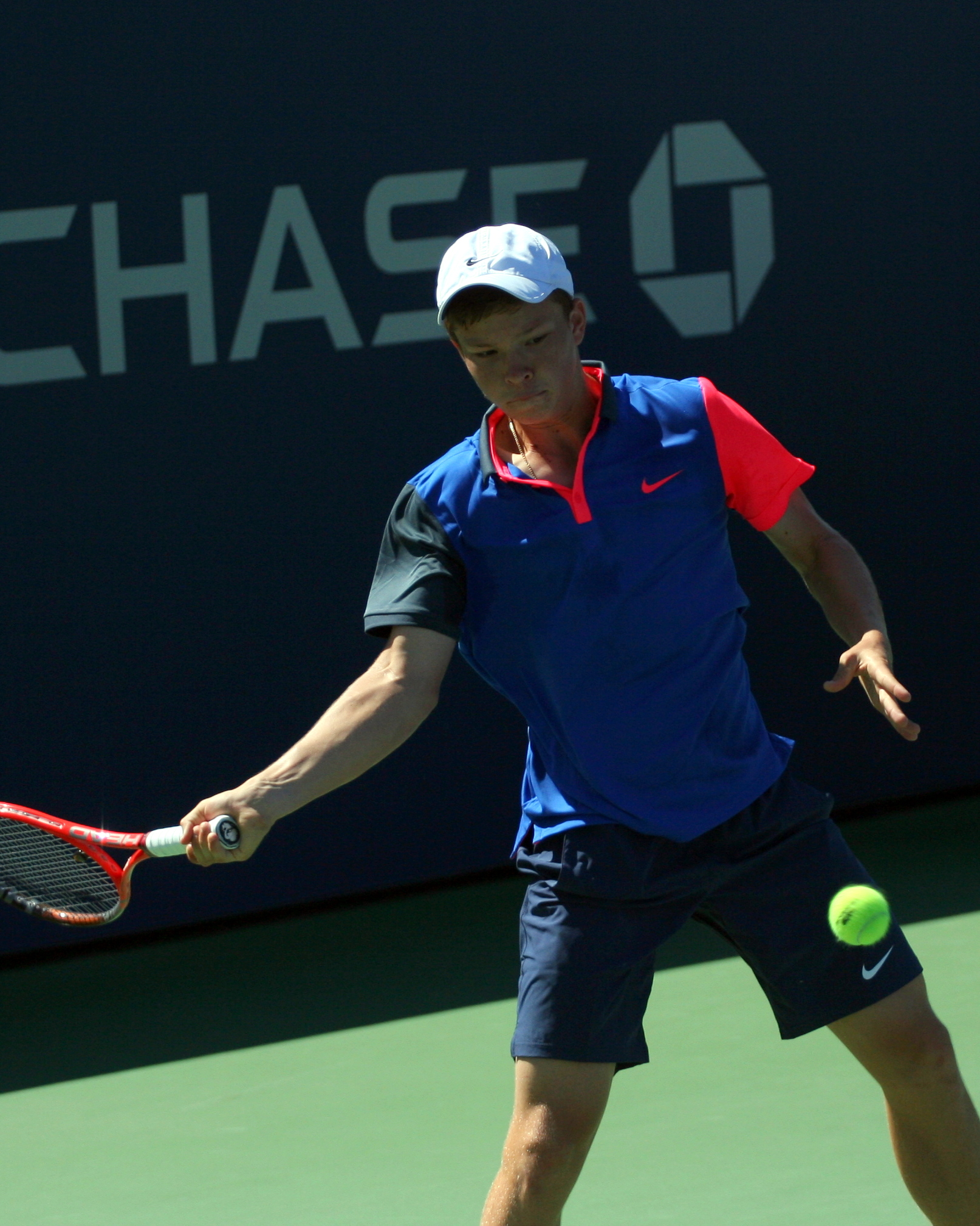 U.S. Open Thursday, Aug. 28, 2014